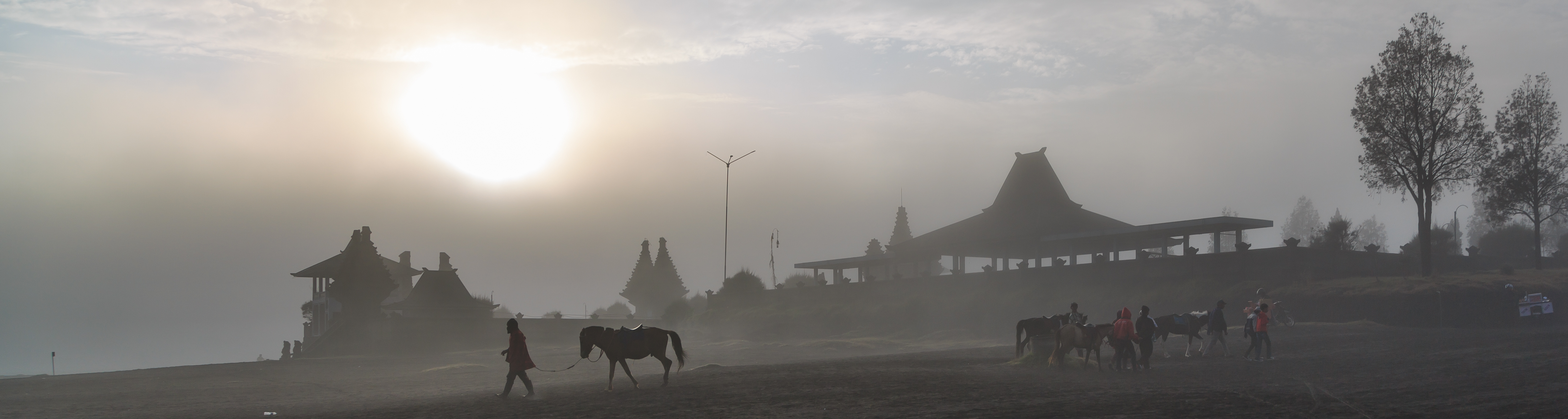 Bromo Tengger Semeru National Park, East Java, Indonesia: Java Pony's (Equus ferus caballus) on their way to the volcano.